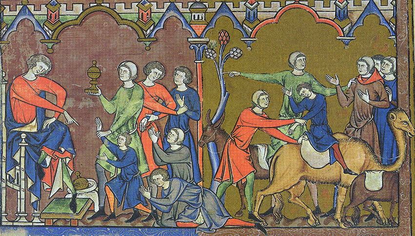 Benjamin is brought back.